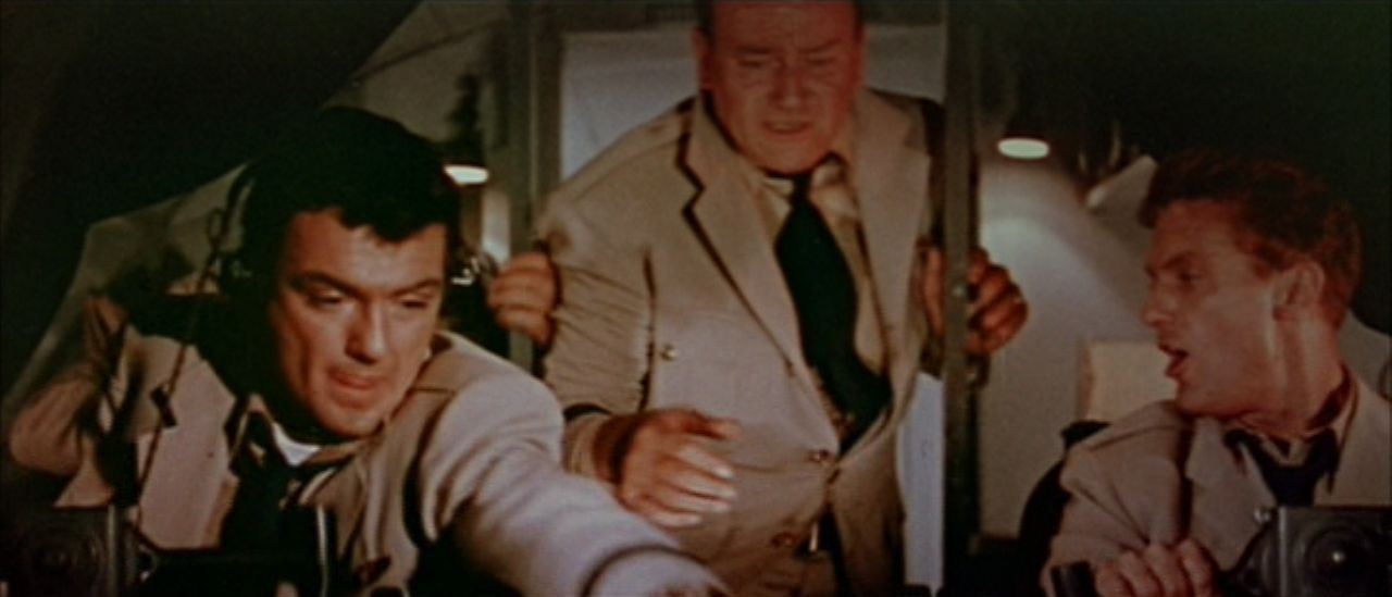 Screenshot showing William Campbell, John Wayne, and Robert Stack from the trailer to the film The High and the Mighty (1954).